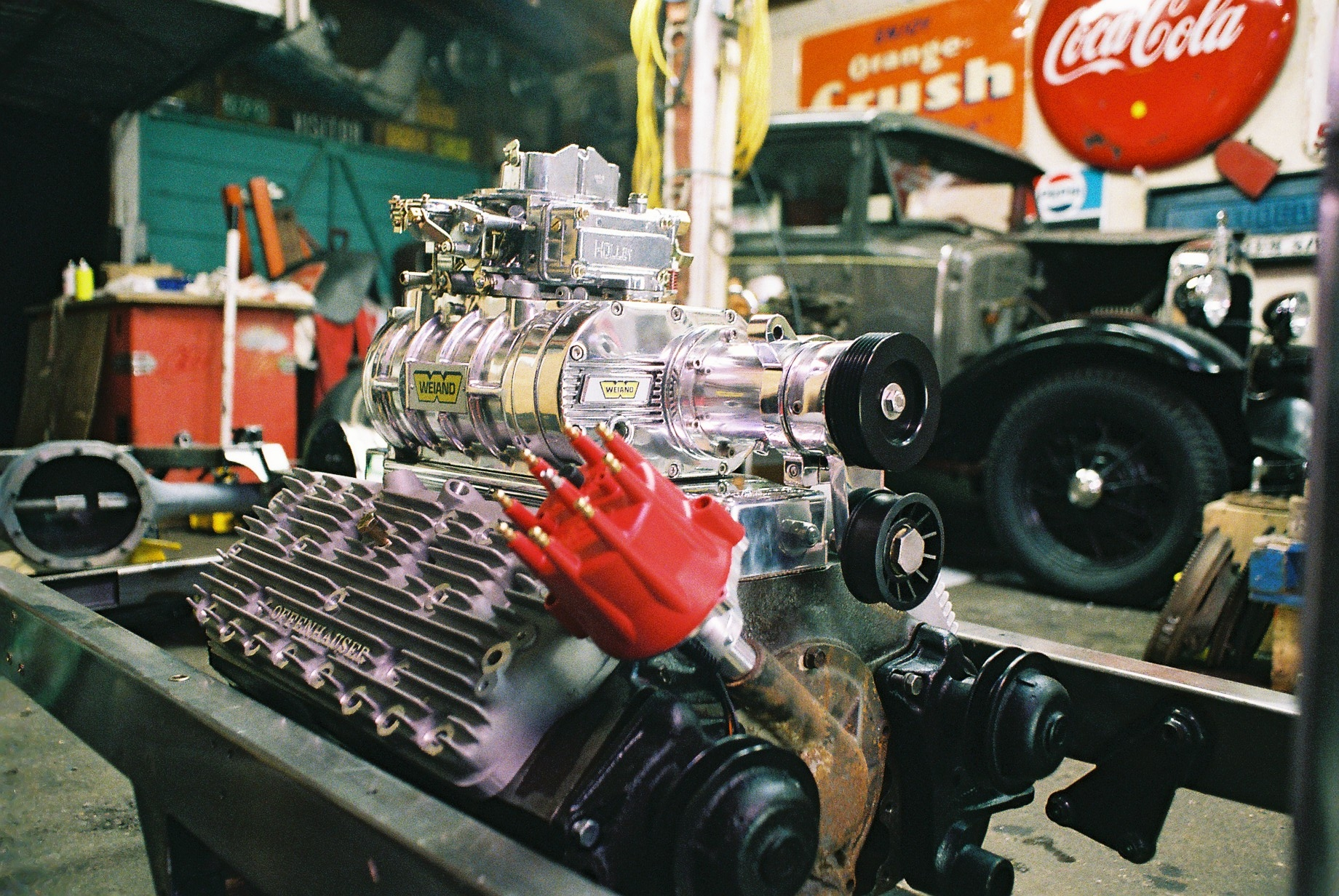 courtesy of moefuzz. I release all rights to this personnel photo as long as the author - Moefuzz - is credited